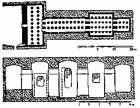 Plan and section of the tomb of Amenemhat Surer (TT48) in Thebes-West